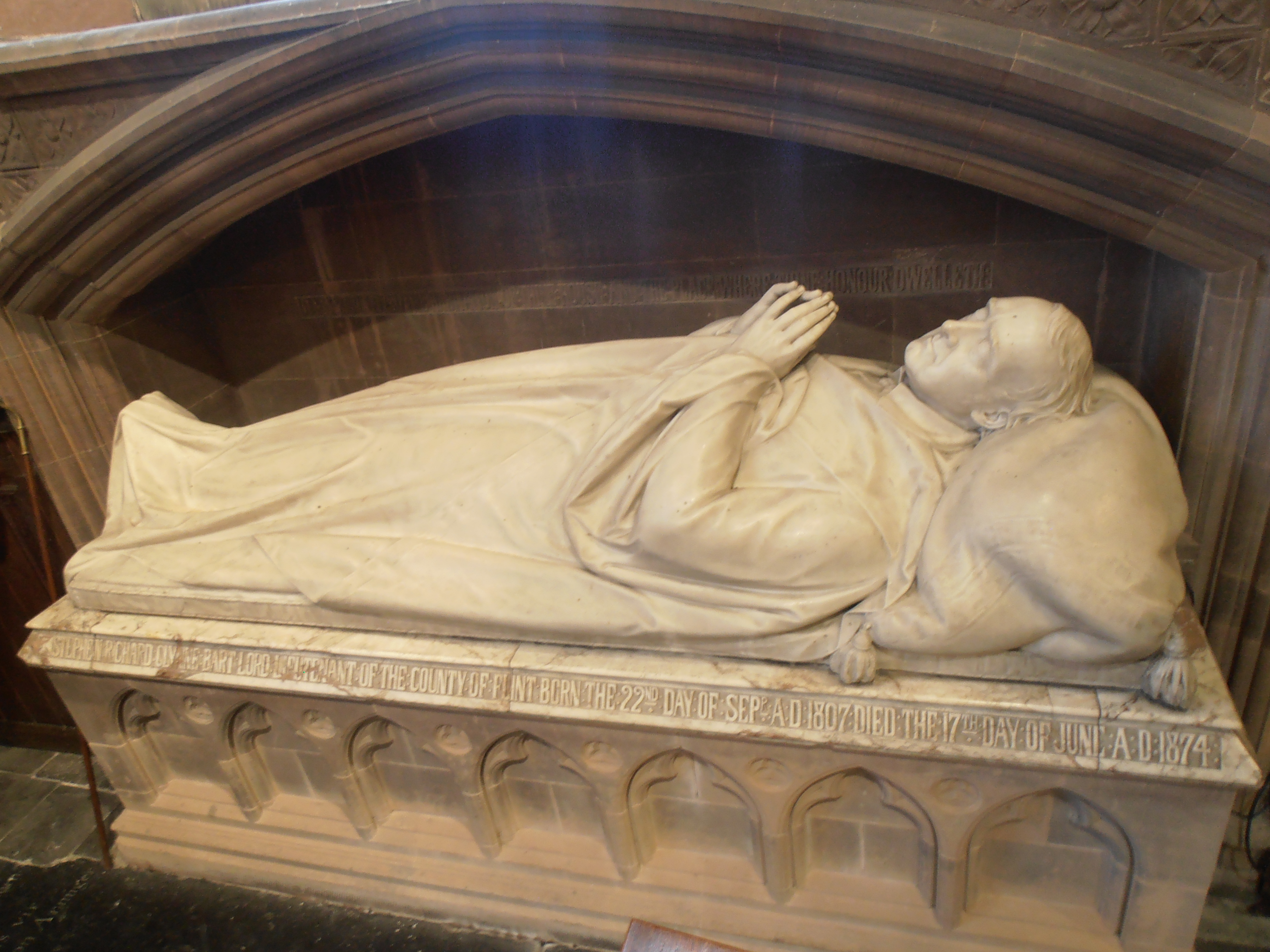 St Deiniol Church, Hawarden, Flintshire, in which lies a statue of W. E. Gladstone and his wife.